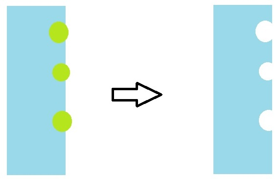 A sketch of a moleculary imprinted polymer